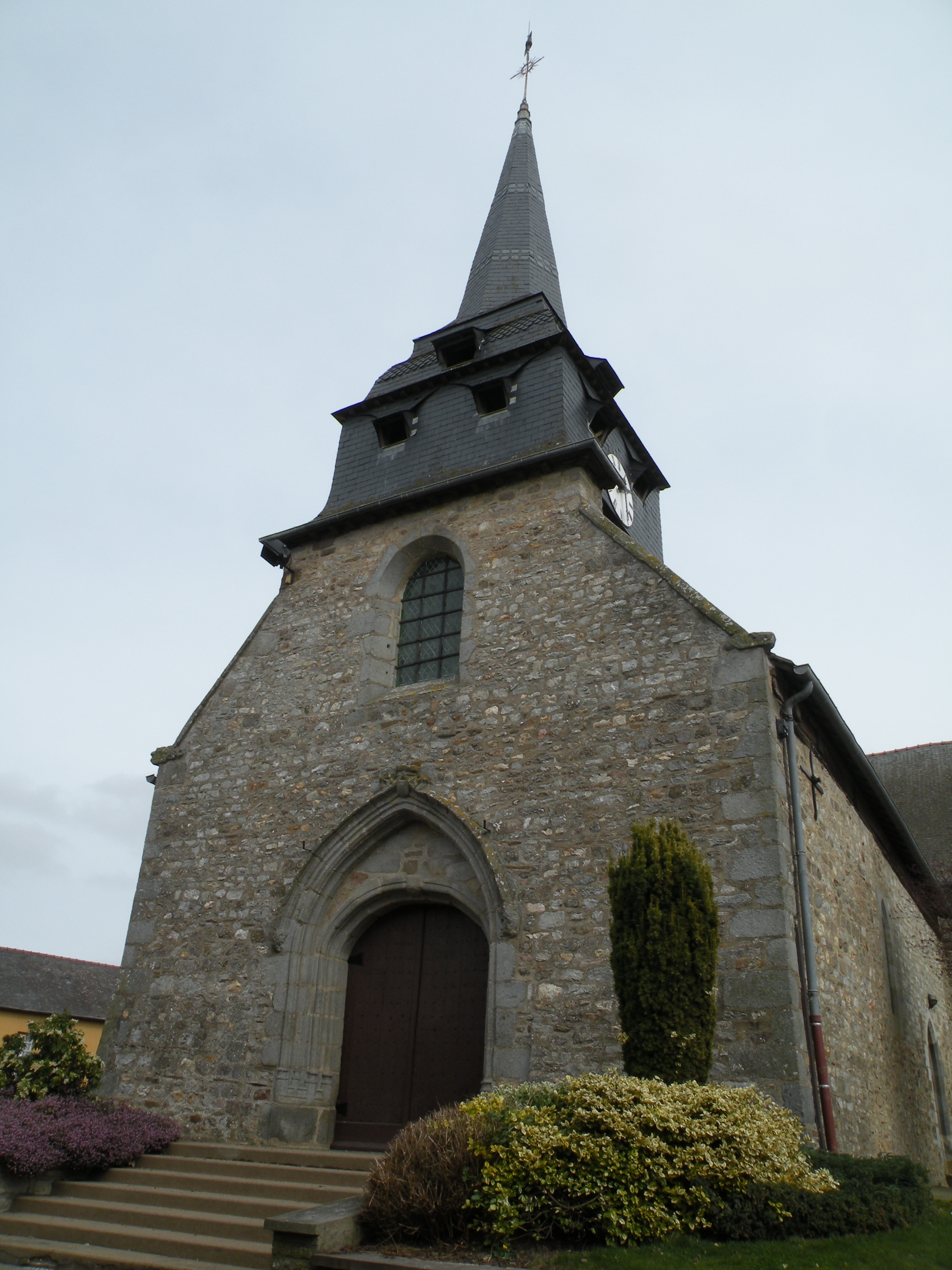 Porch of Saint-Melaine church in Vignoc.